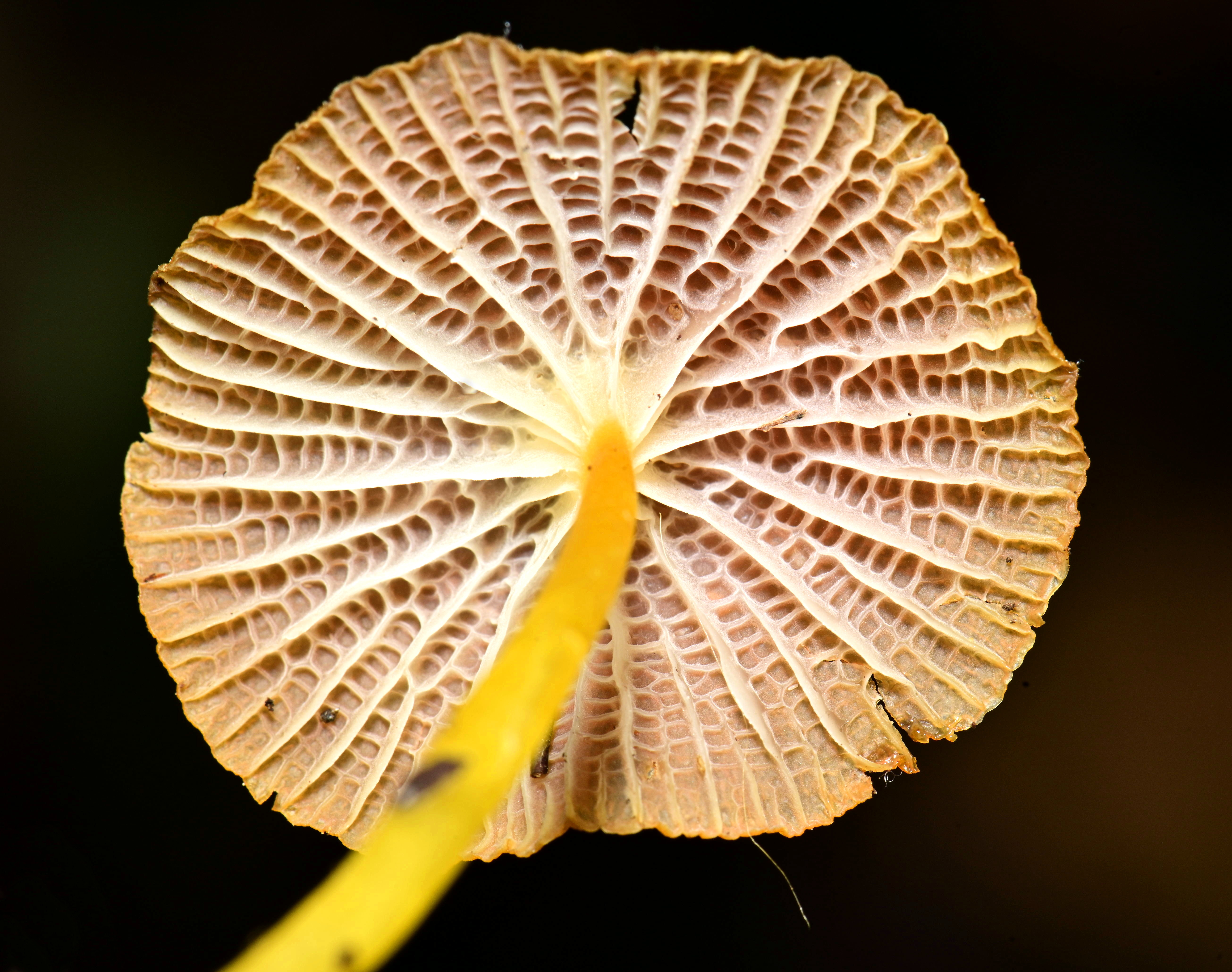 Anastomosing gills on Marasmius cf. cladophyllus. Photographed in Pastaza, Ecuador.